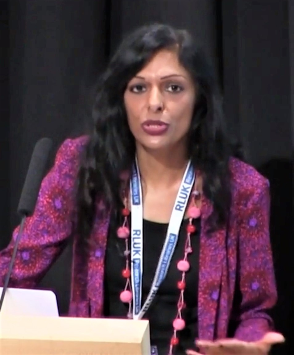 RLUK17 Keynote | BME flight from UK HE: inclusion & equity - Kalwant Bhopal, Birmingham ￼Kalwant Bhopal is Professor of Education and Social Justice, and Bridge Professorial Research Fellow in the Centre for Research in Race and Education in the School of Education at the University of Birmingham. RLUK is a consortium of 37 of the major research libraries in the UK and Ireland, whose purpose is to shape the research library agenda and contribute to the wider knowledge economy through innovative projects and services that add value and impact to the process of research and researcher-training. The RLUK Conference is an annual event, bringing together Directors, Senior Library Managers and key thought leaders from across the national and international HE and research sectors.